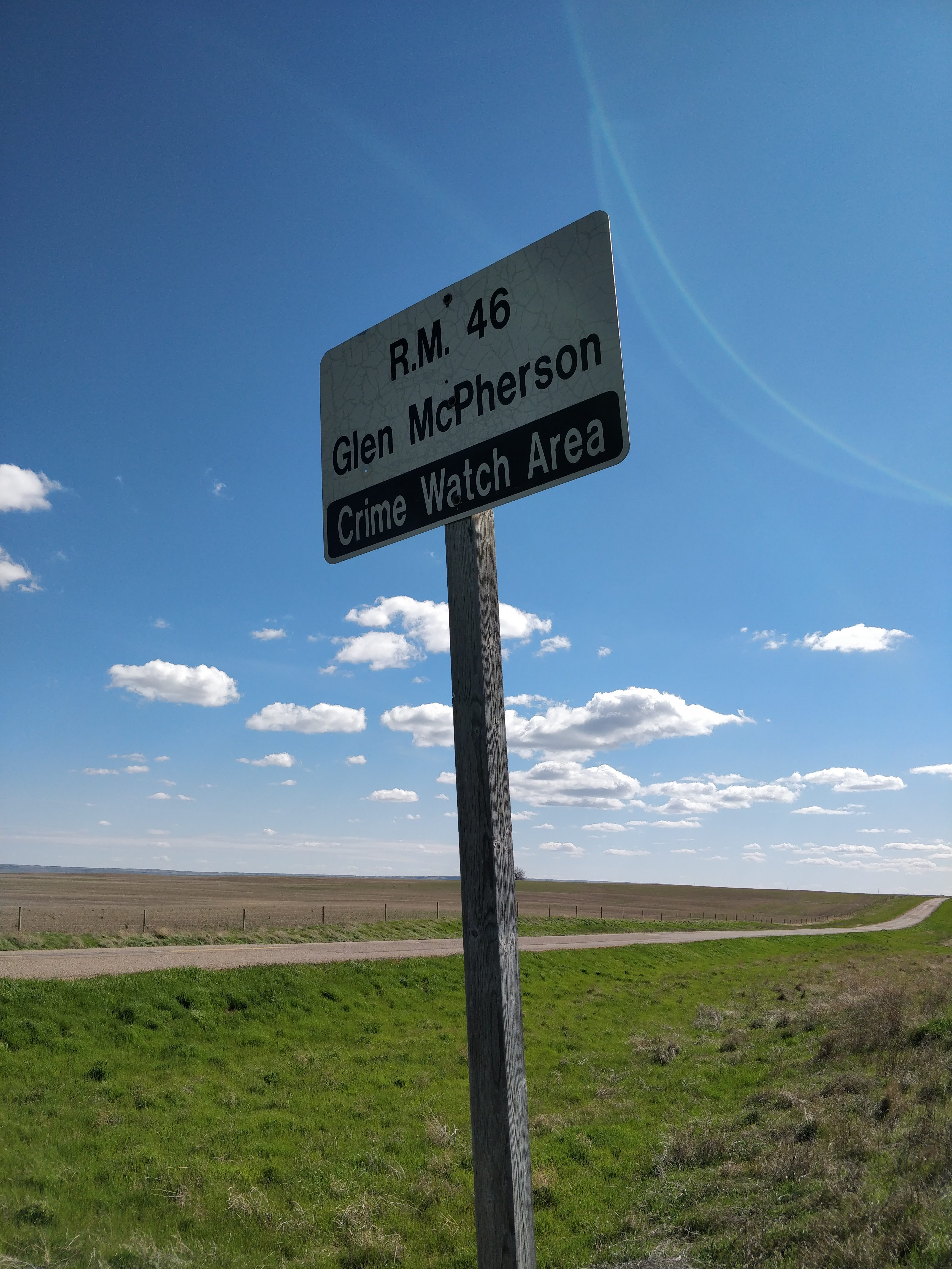 Boundary sign of the R.M. of Glen McPherson #46, Saskatchewan. In 2016, this jurisdiction contained only 72 residents.